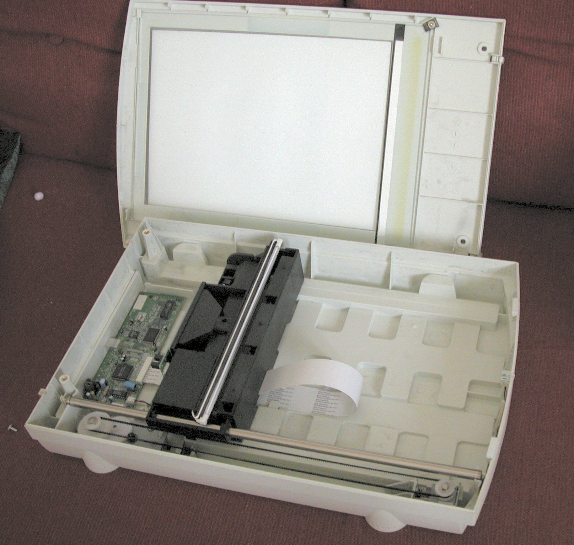 Scaner From Inside.